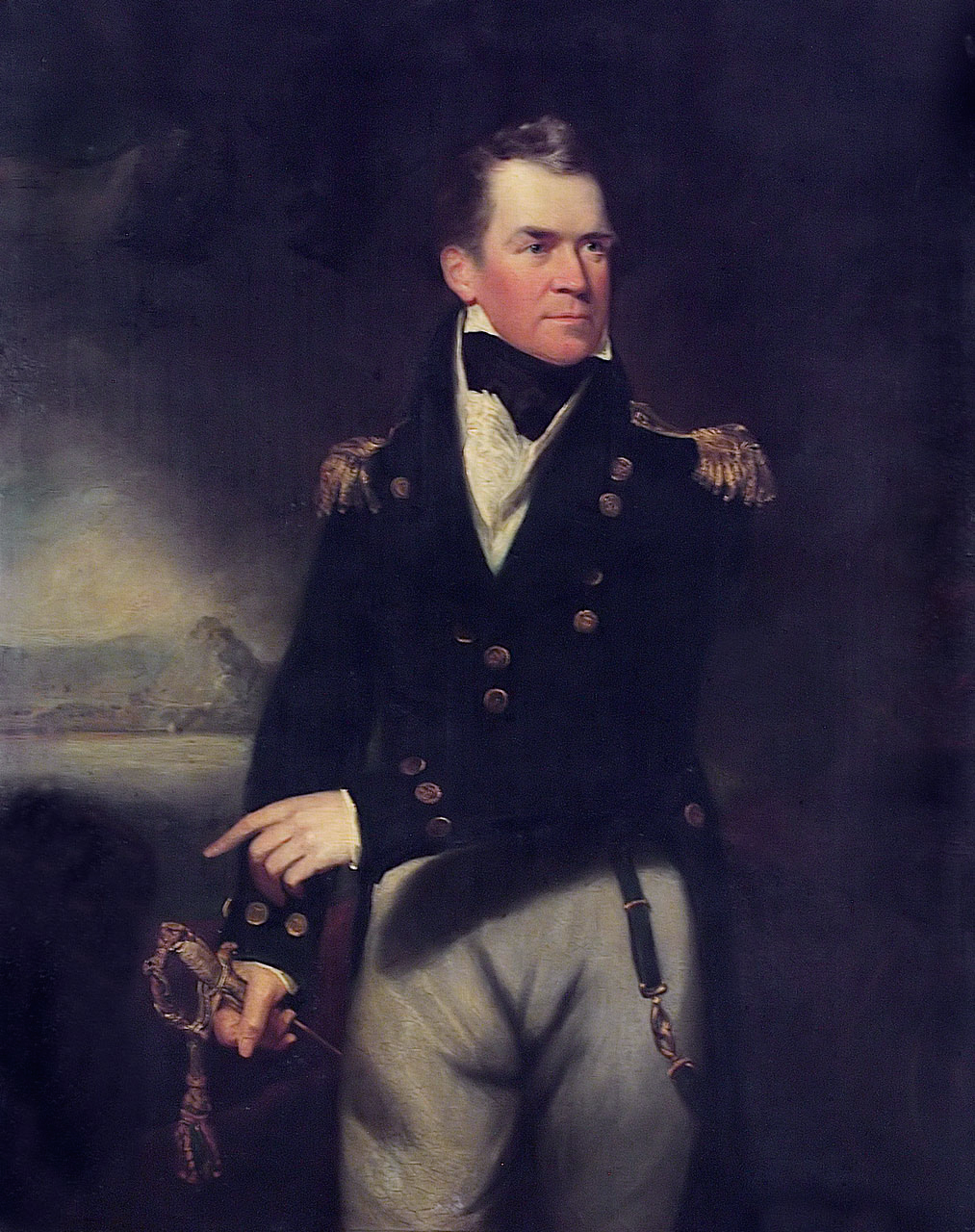 A three-quarter-length portrait wearing captain's undress uniform of over three years, 1812-25. He carries his sheathed sword in his right hand and points purposefully to the left of the picture with his left. He is portrayed standing on deck with a carronade to his right, and San Sebastian in Northern Spain in the background.